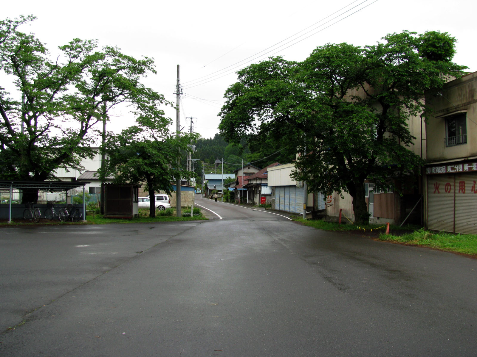 Satoshiraishi Station on Suigun Line